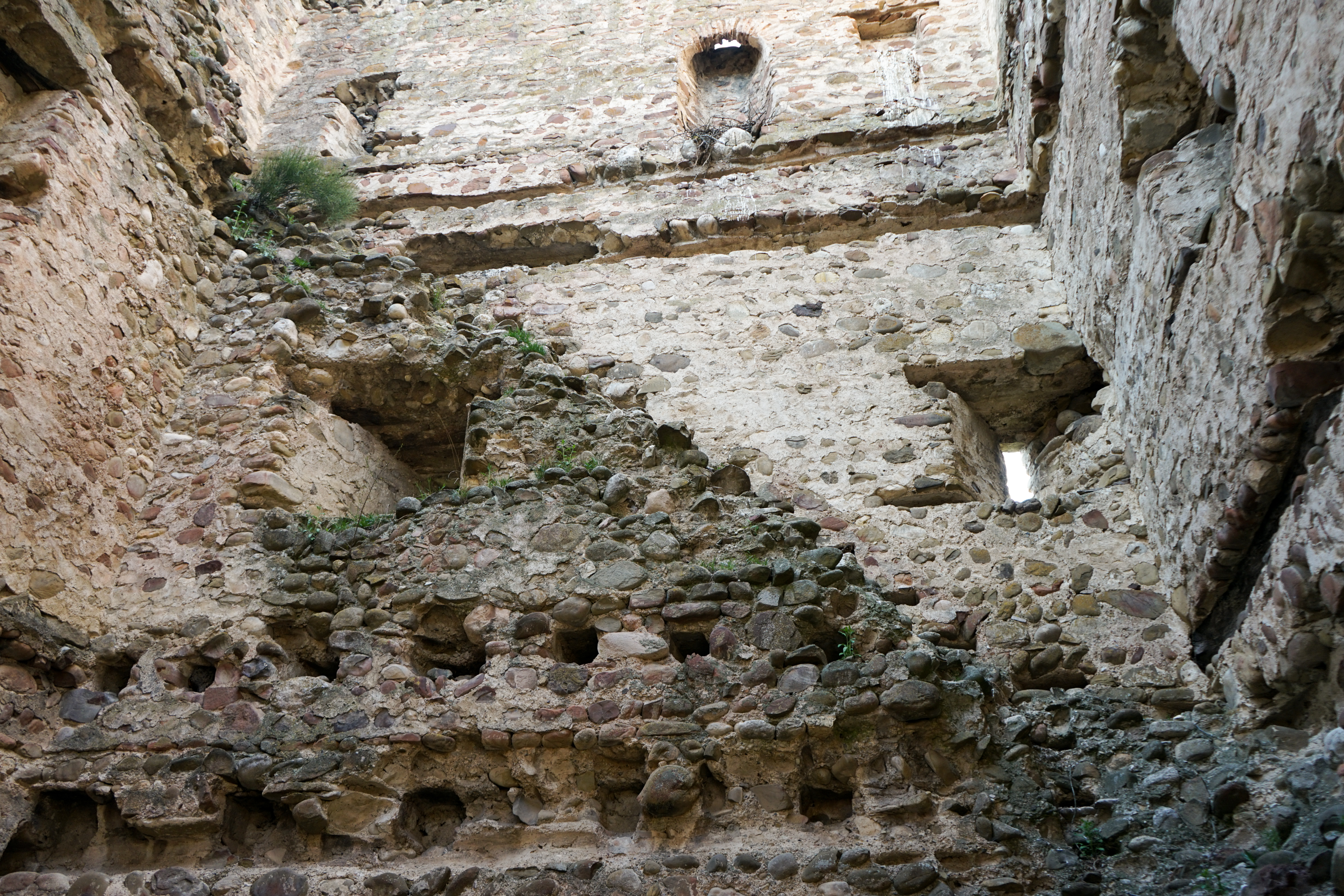 The Inside of the tower in Zemo Kodistskaro Palace, Dusheti Municipality, Georgia